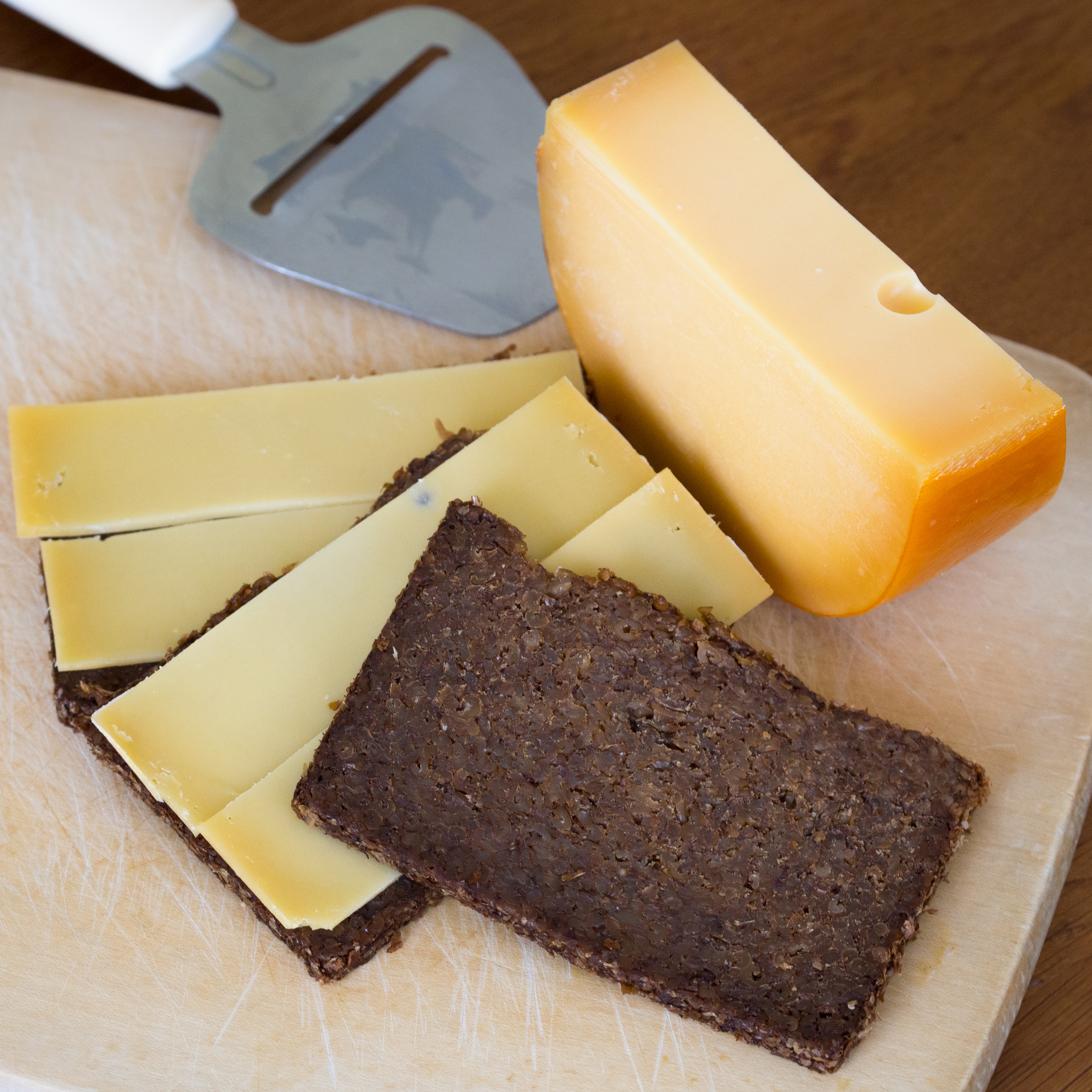 Fries roggebrood' (Friesian rye bread) with Old Amsterdam cheese.